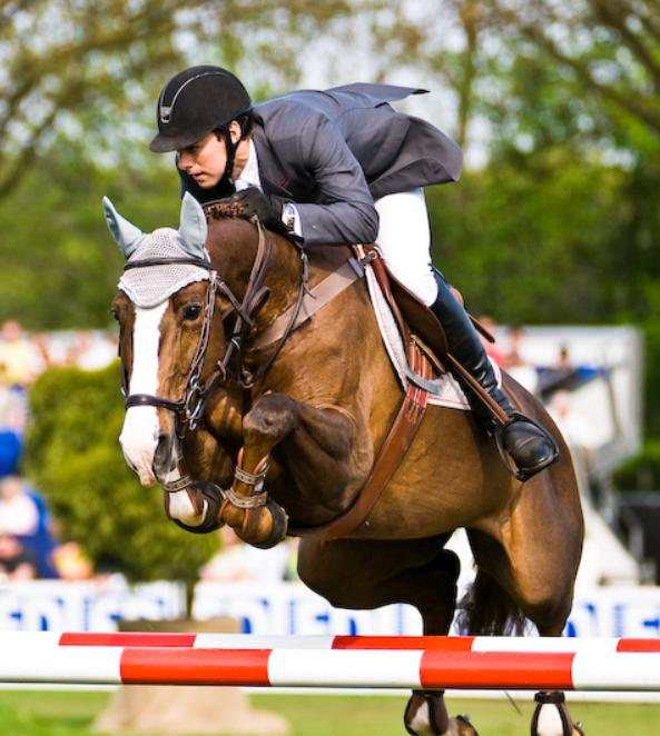 The dutch show jumping rider Vincent Vorrn with Audis Radja, Internationaal Concours Hippique Eindhoven (CSI 3*) 2008, Grand Prix of Eindhoven